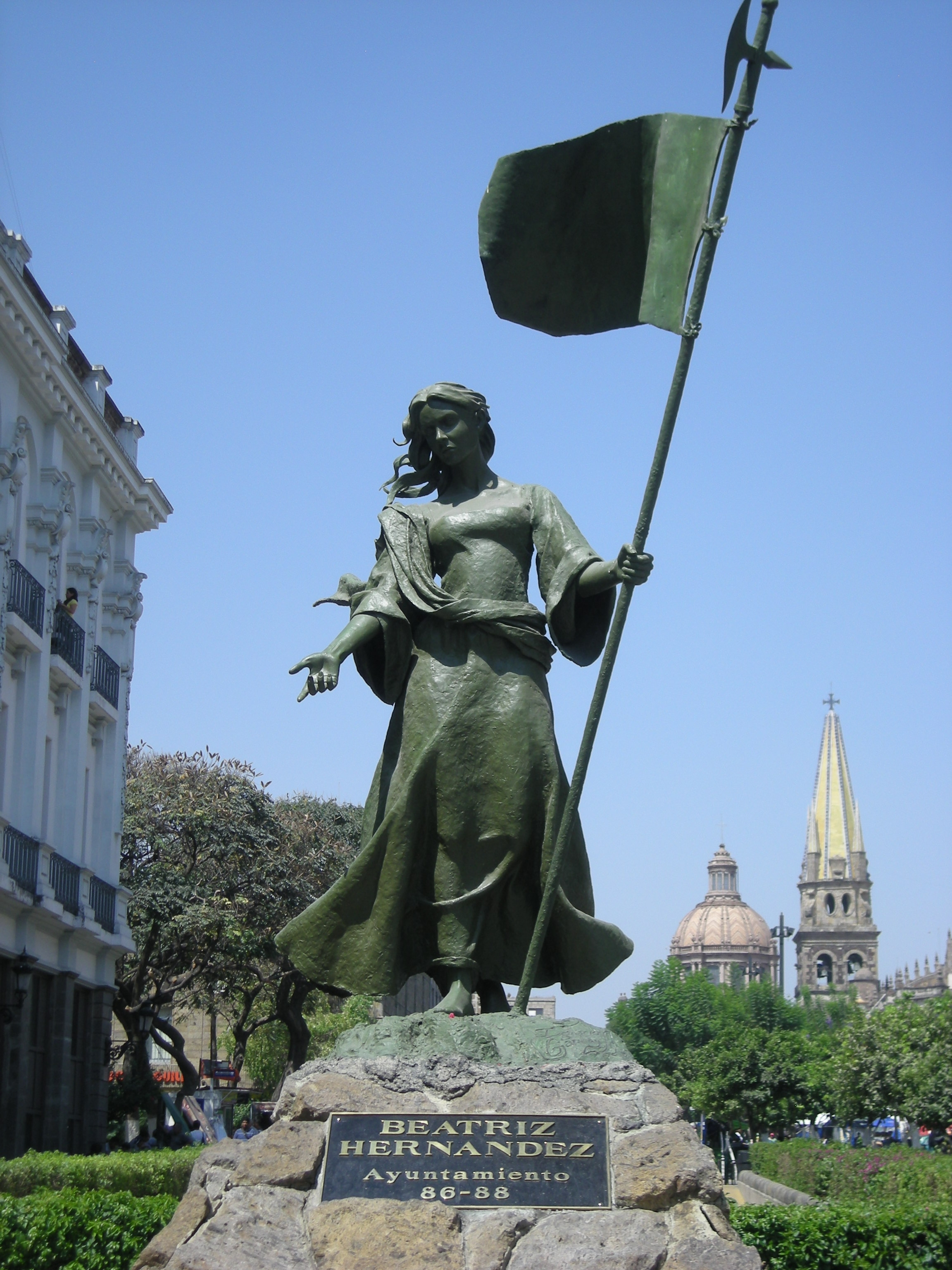 Statue of Beatriz Hernandez, one of the pioneers of the area around Guadalajara Mexico in this city.